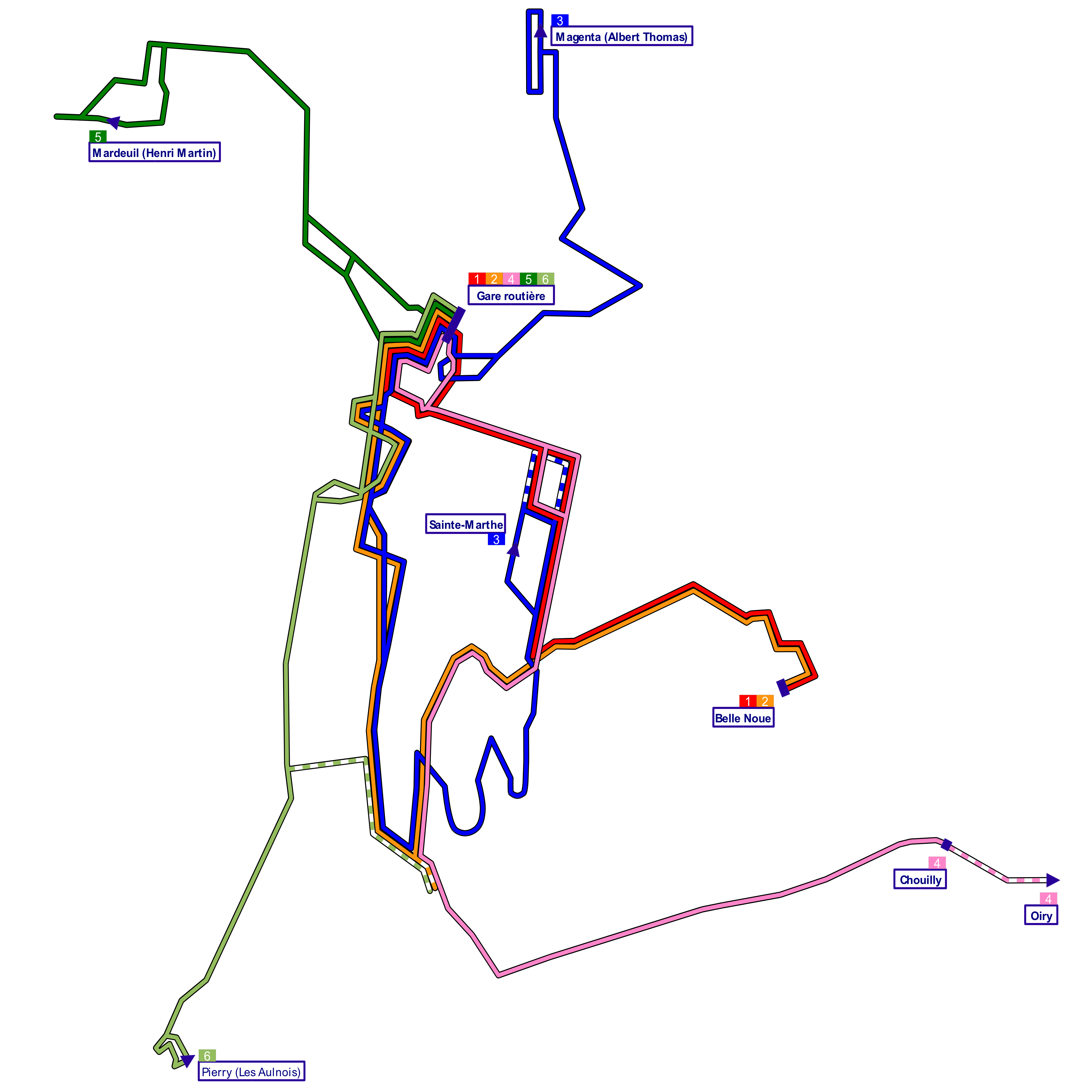 Map of bus network in Epernay, France